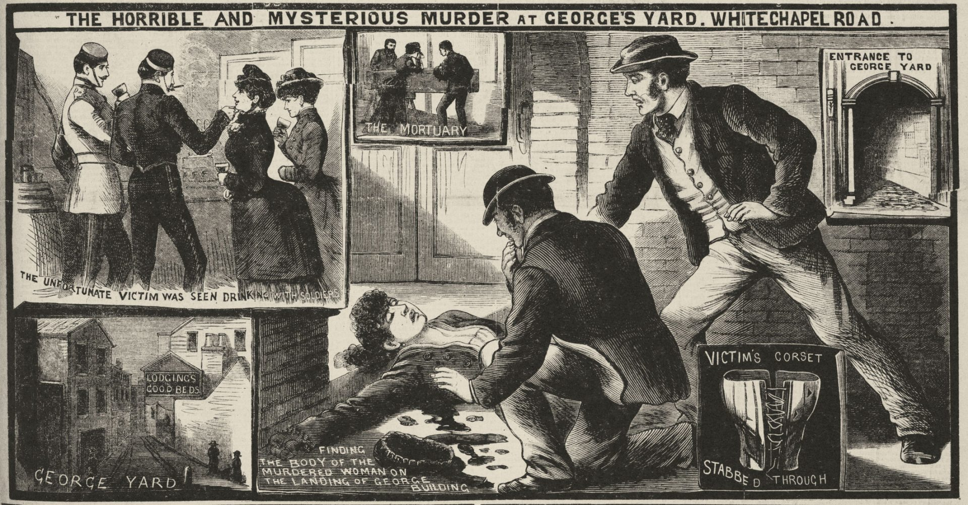 The Illustrated Police News - August 18, 1889 - Martha Tabram